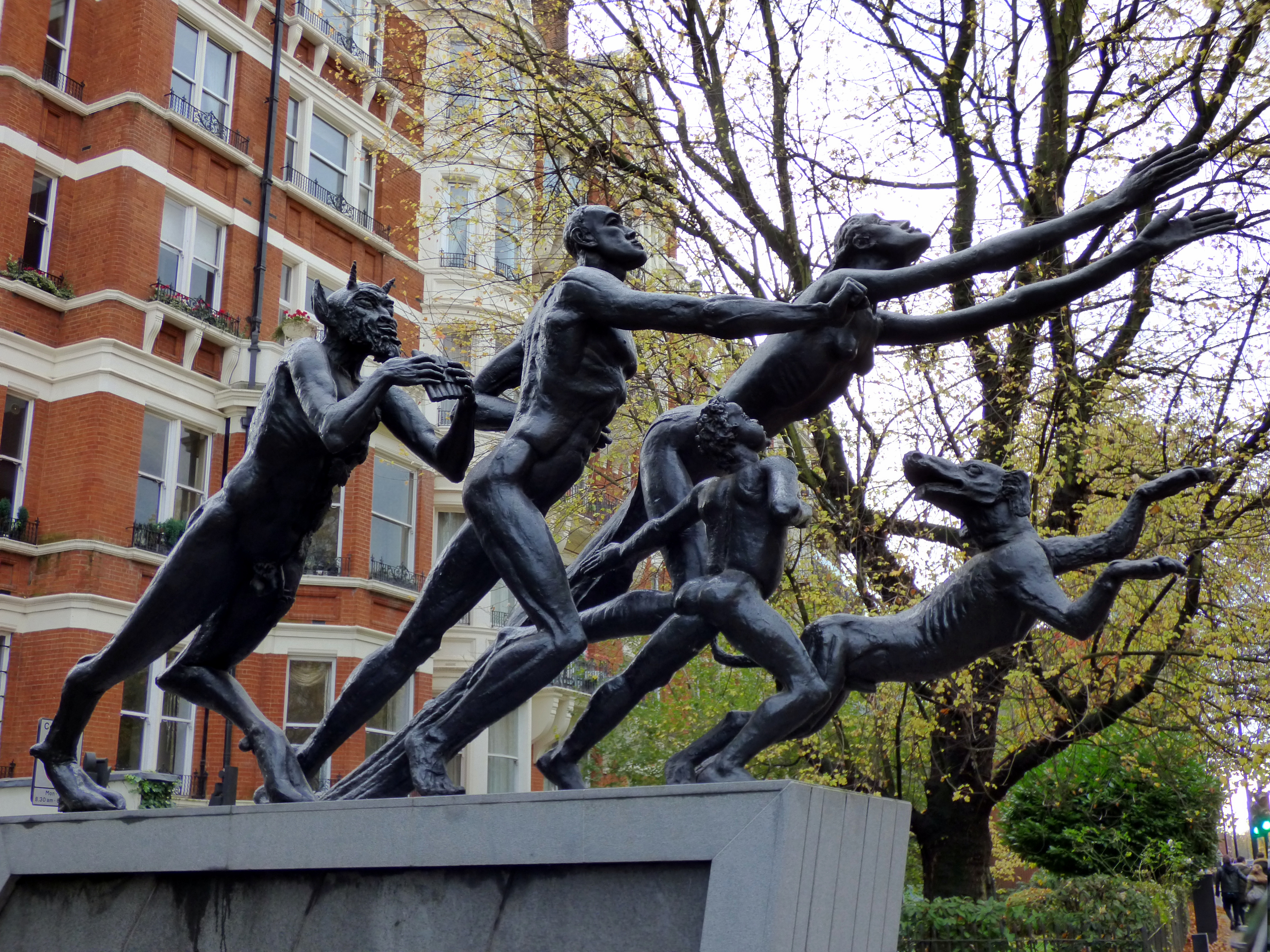 The Rush of Green or The Bowater House Group or The Pan Statue, 1959, by Jacob Epstein, Edinburgh Gate, Knightsbrige, Hyde Park, City of Westminster, London. The last sculpture completed by Epstein before his death. It is Grade II listed. GOC Hertfordshire's walk on 11 November 2017, an 8-mile point-to-point walk from Pimlico to Notting Hill Gate via Millbank, Belgravia, Knightsbridge, Hyde Park and Kensington Gardens. John T led the walk, which was attended by 15 people. You can view my other photos of this event, read the original event report, find out more about the Gay Outdoor Club or see my collections.